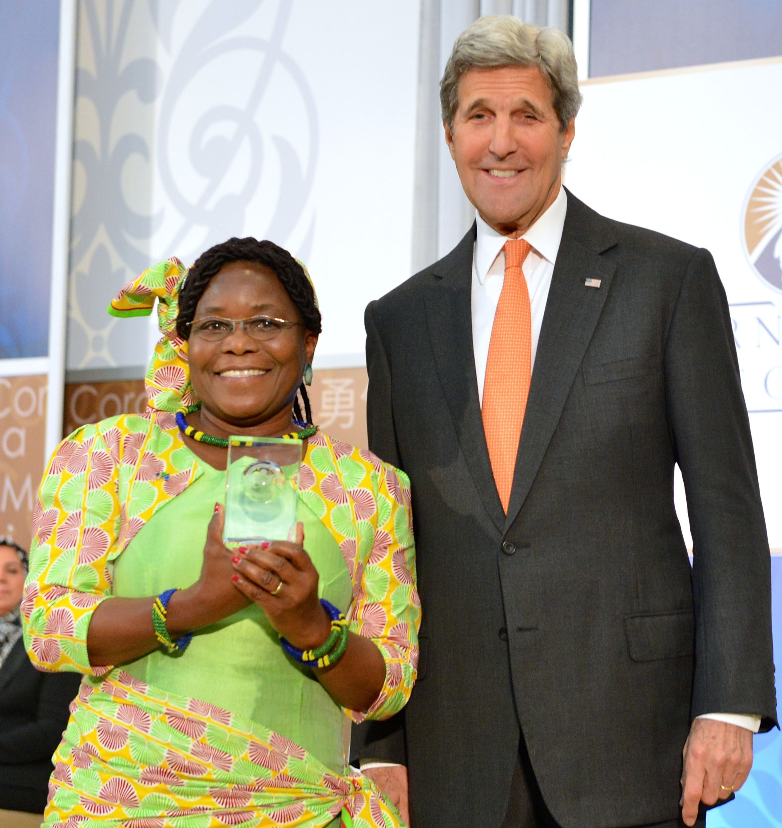 International Women of Courage Awards 2016